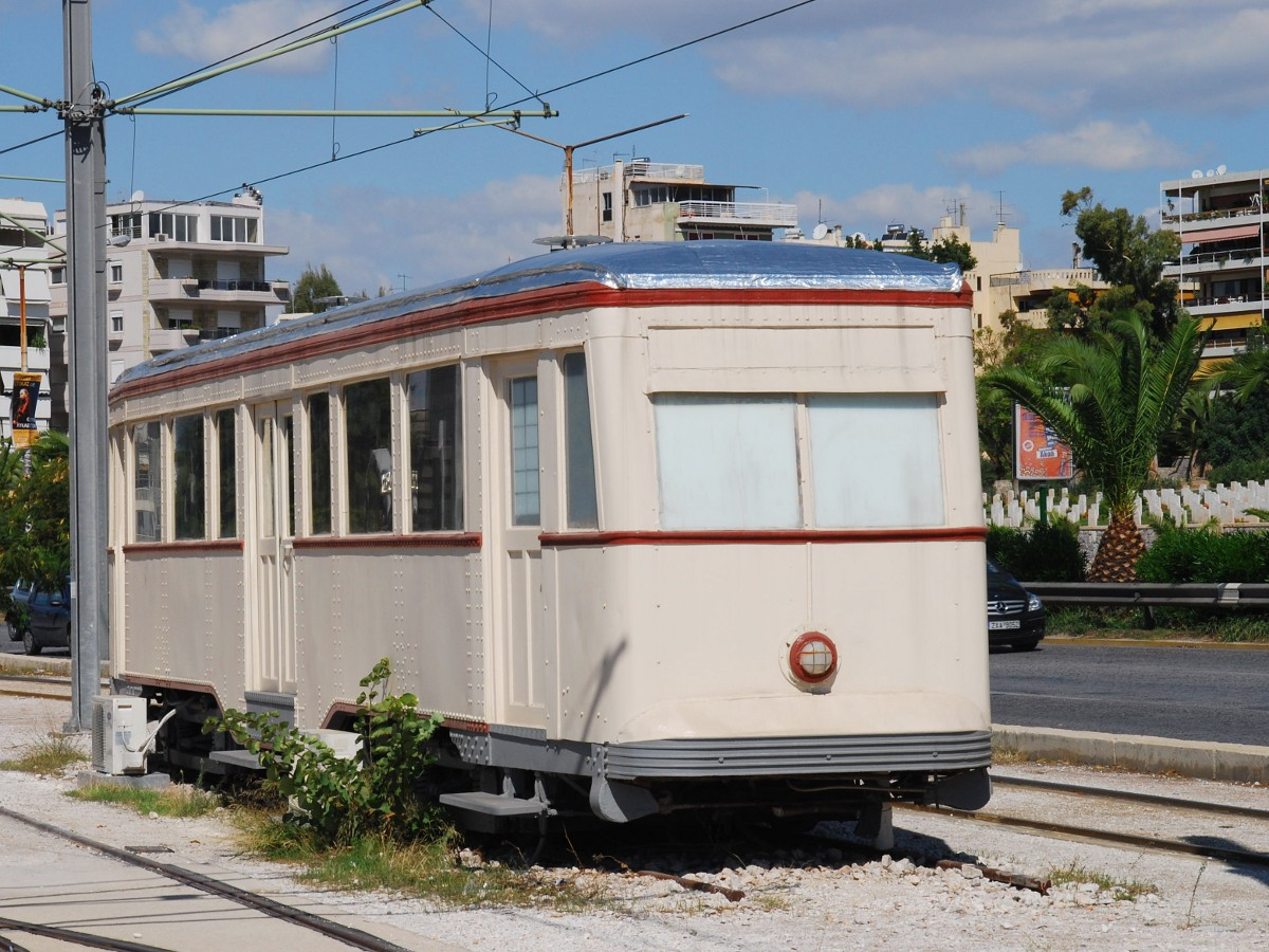 Athens, Greece: OM-CGE-Breda railcar no 82 of the defunct Piraeus-Perama suburban light railway (1936-1977) at Pikrodaphni tram station. Pantographs, Scharfenberg couplers and identification numbers have been removed.